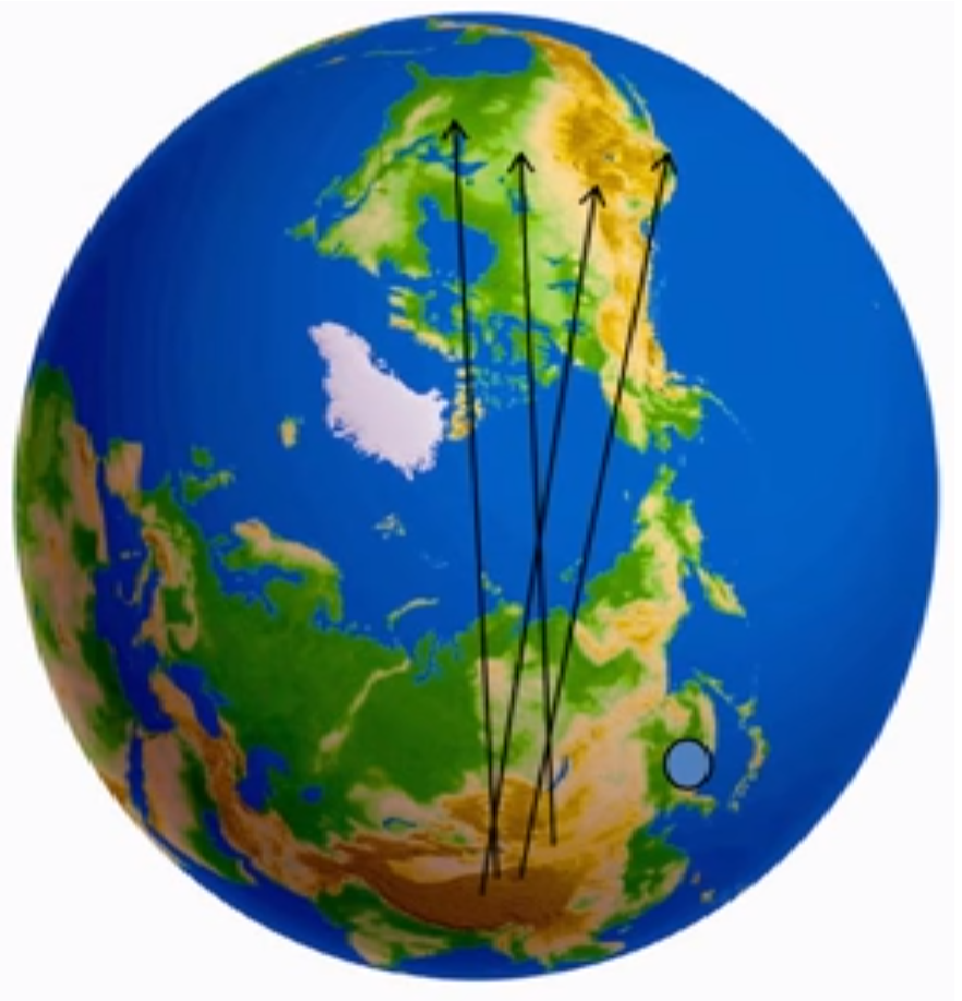 From china to na